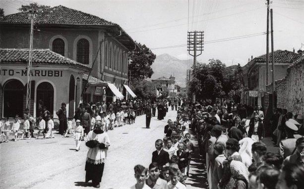 "The Corpus Christi procession in Scutari, photo, undated (1939-1940), 183x130 mm. On the left is the building housing the studio Marubi.